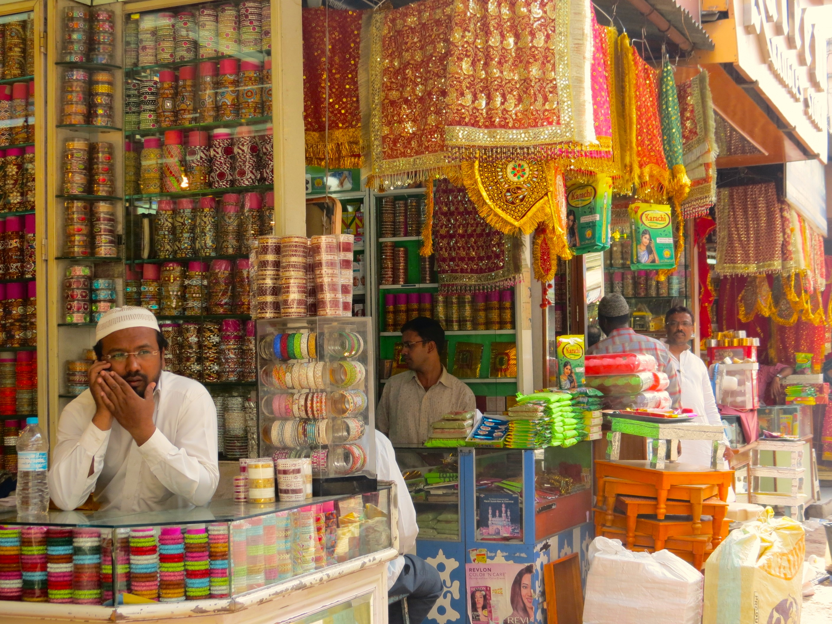 Laad Bazaar, Bridal ware shops view, Hyderabad